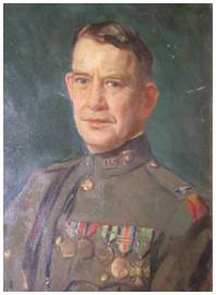 Portrait of Warren Webster Whitside a career U.S. Army Colonel who served as a Cavalry and Quartermaster officer.